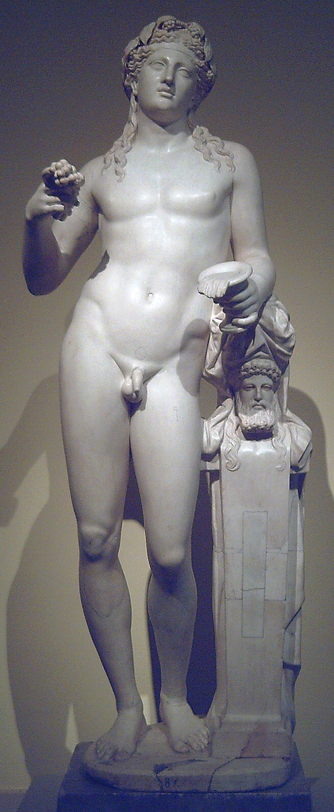 Statue of Dionysus of the "Madrid-Varese type". Roman artwork based on a late Hellenistic original (ca. 125–100 BC).